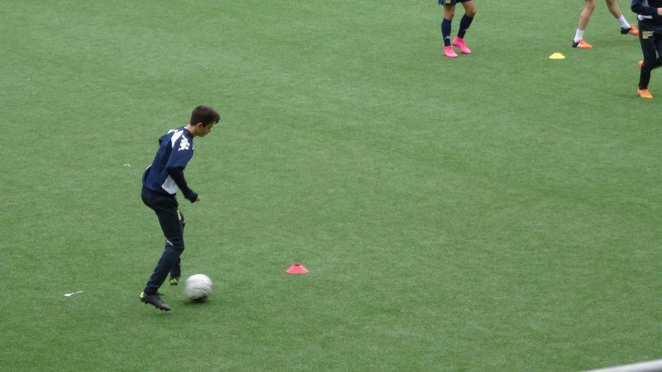 Edon Zhegrova duke u trajnuar per skuadren e tij Standart Liege.